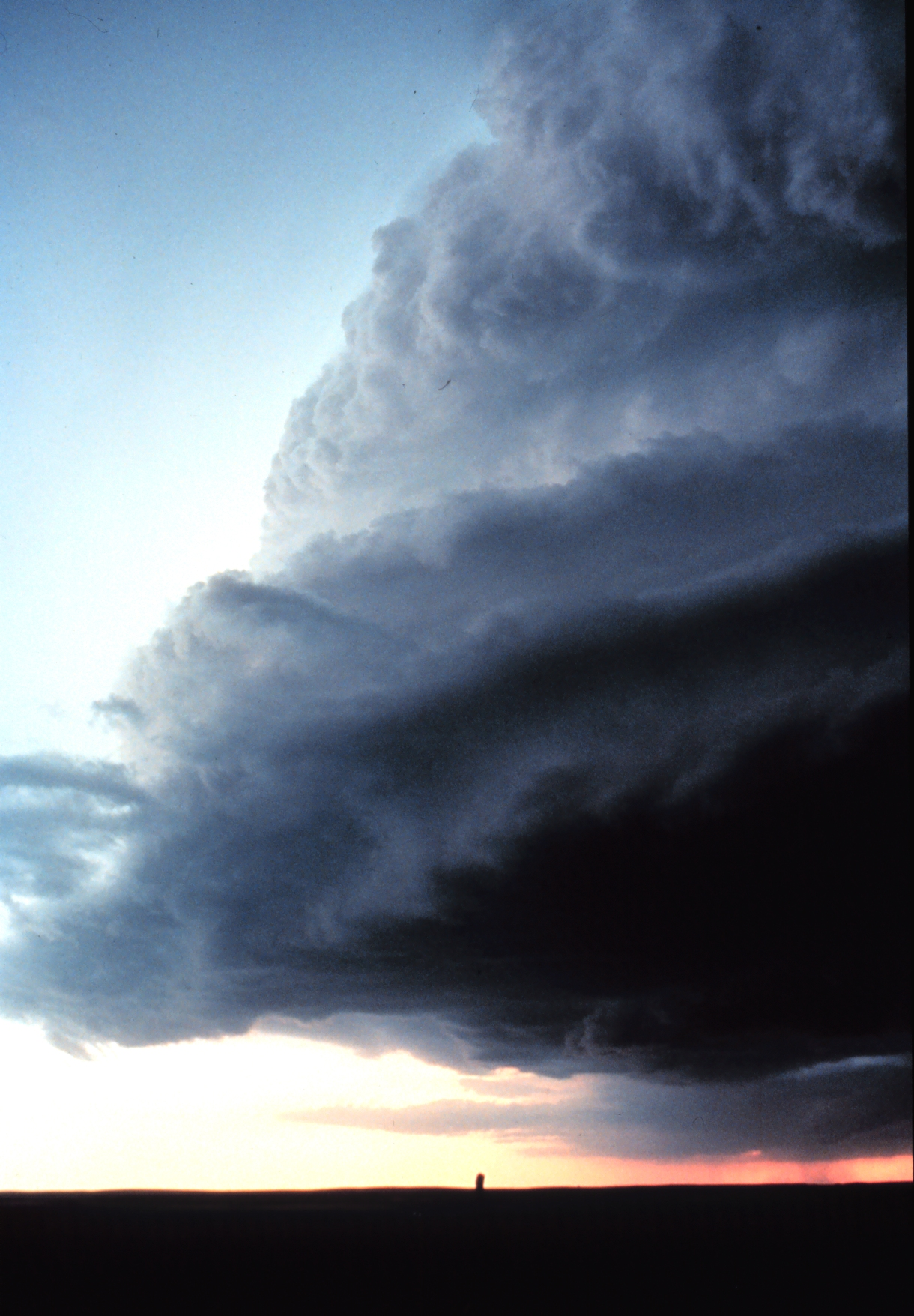 Shelf cloud of a supercell over Miami, Texas